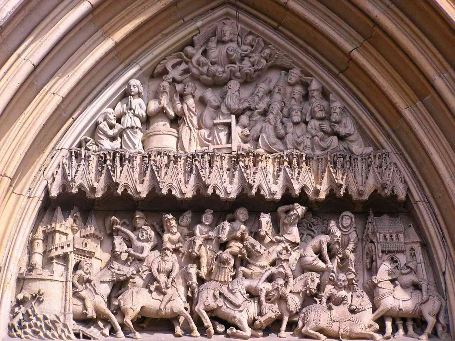 Strzegom, parish church, detail of west portal.